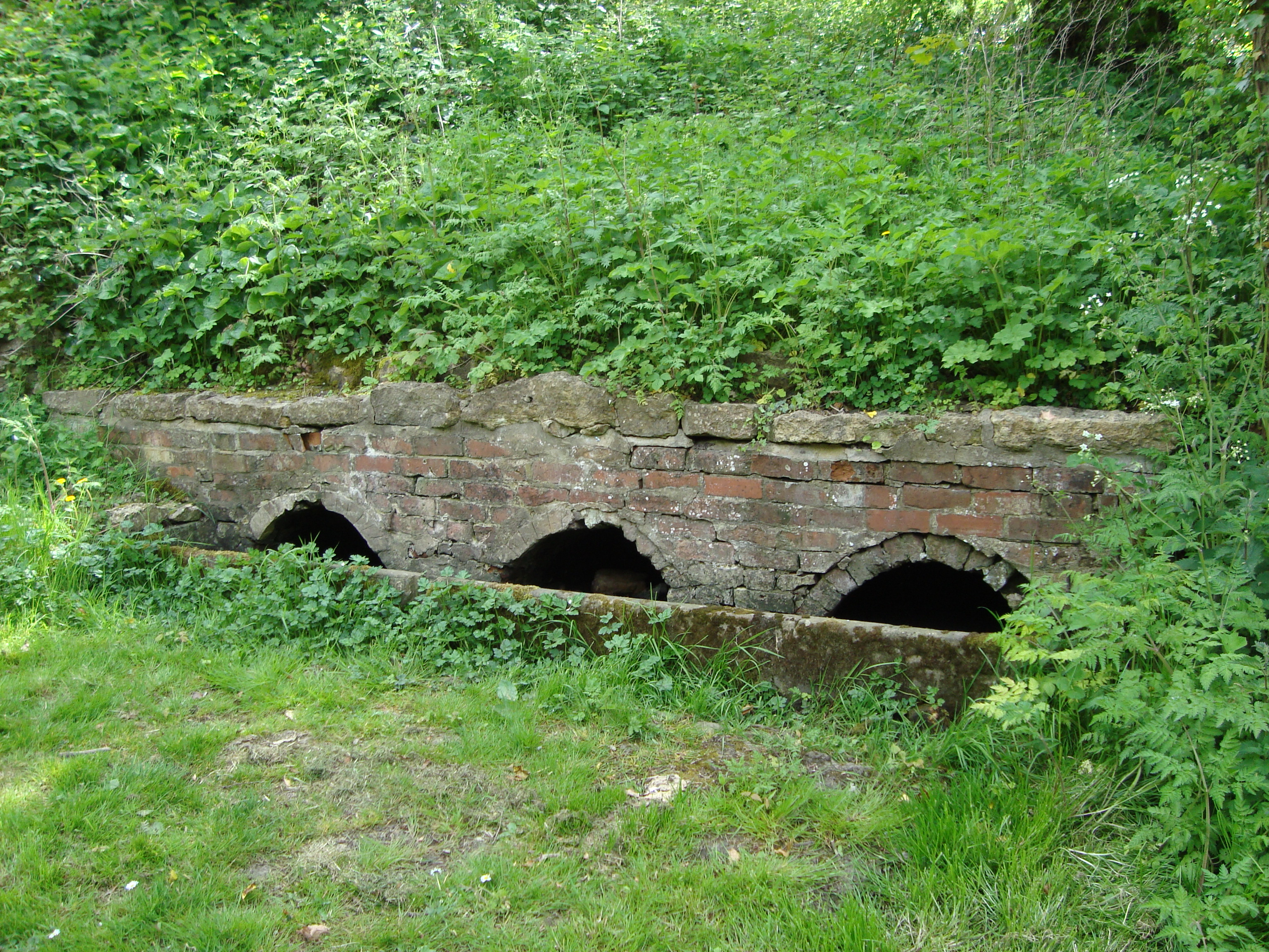 Low Wells - Prospect Lane, Alkborough